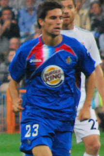 Adrián González Morales playing for Getafe, 31 October 2009